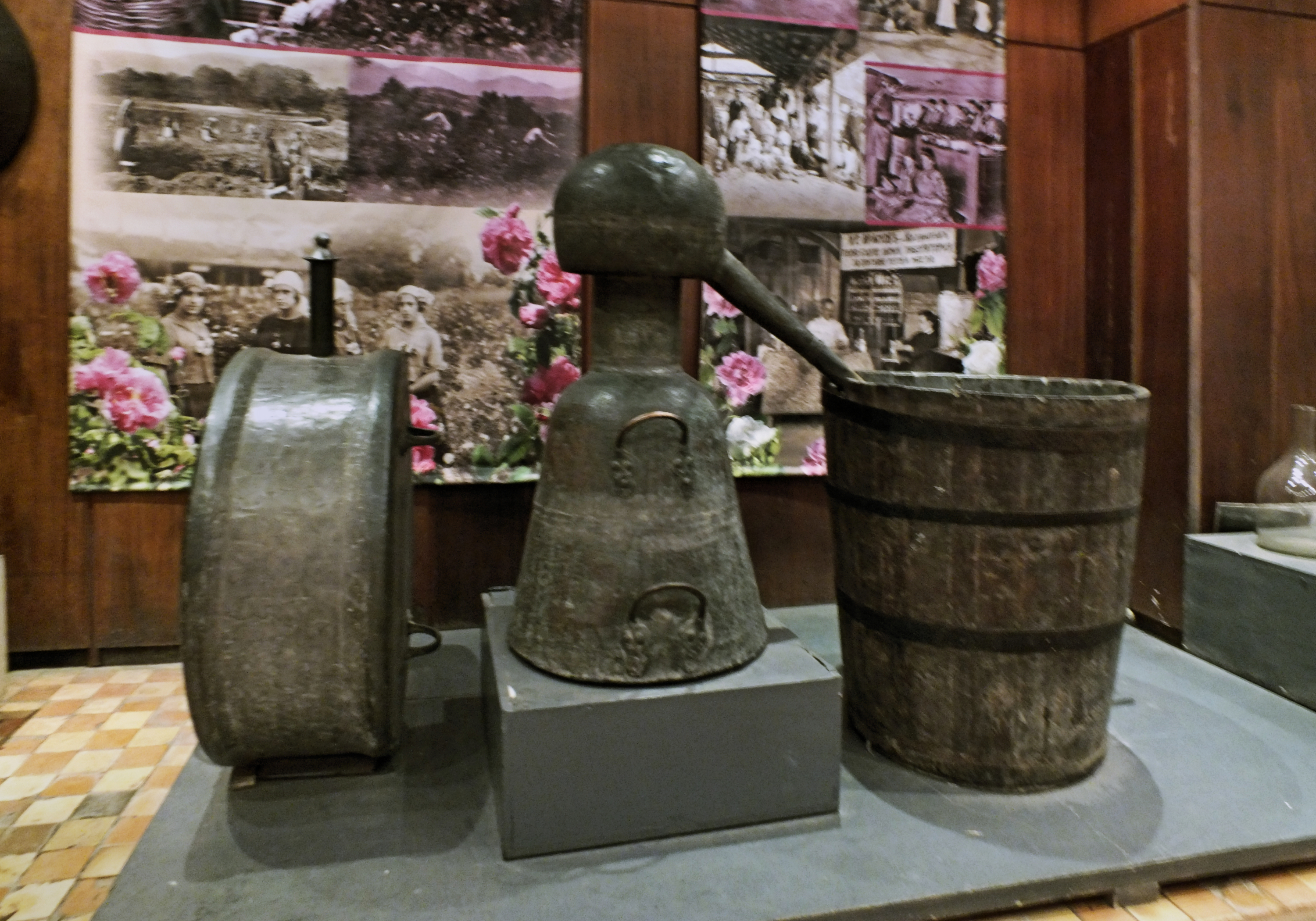 Kazanlak, exhibits at the Rose Museum